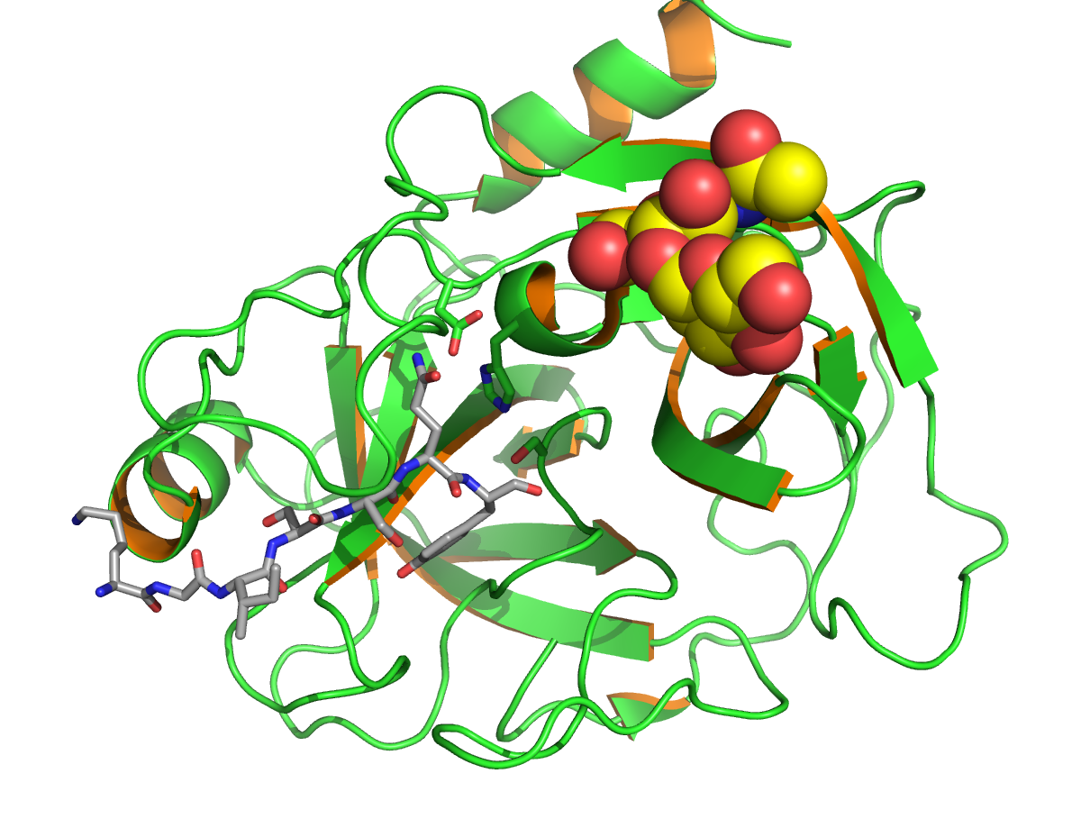 Human prostate specific antigen (PSA/KLK3) with bound substrate from complex with antibody (PDB id: 2ZCK)